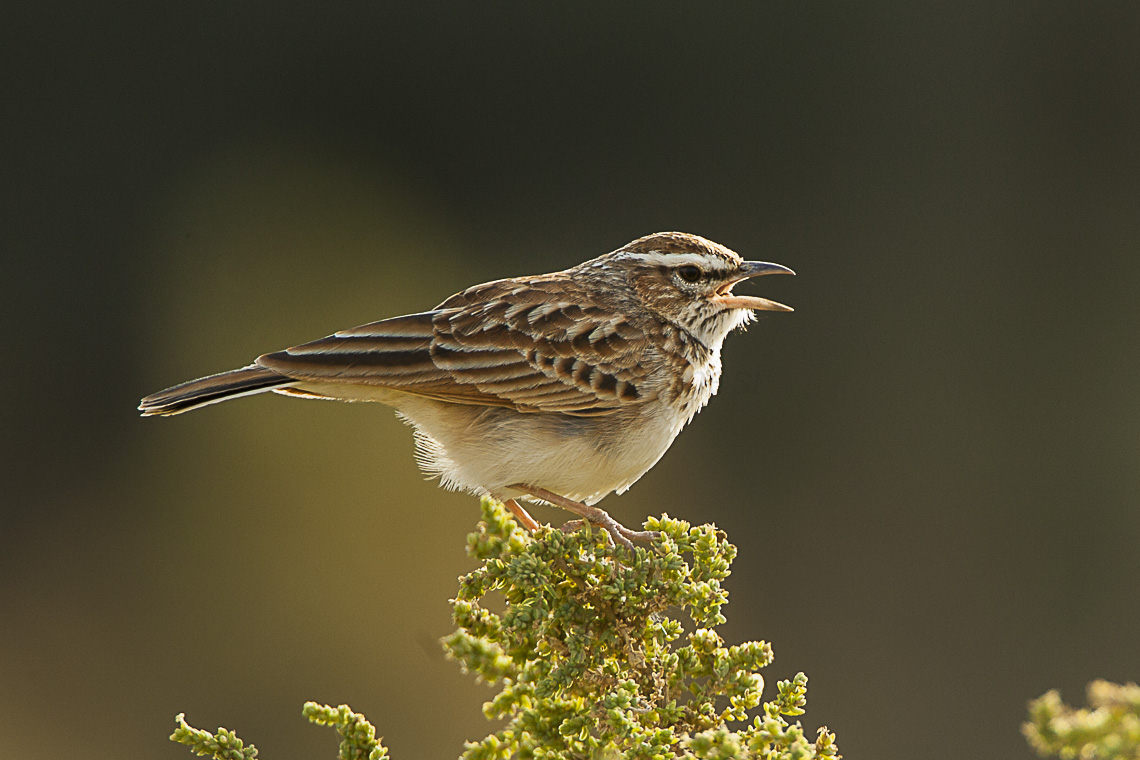 Fawn-colored Lark - Kenya_NH8O6243